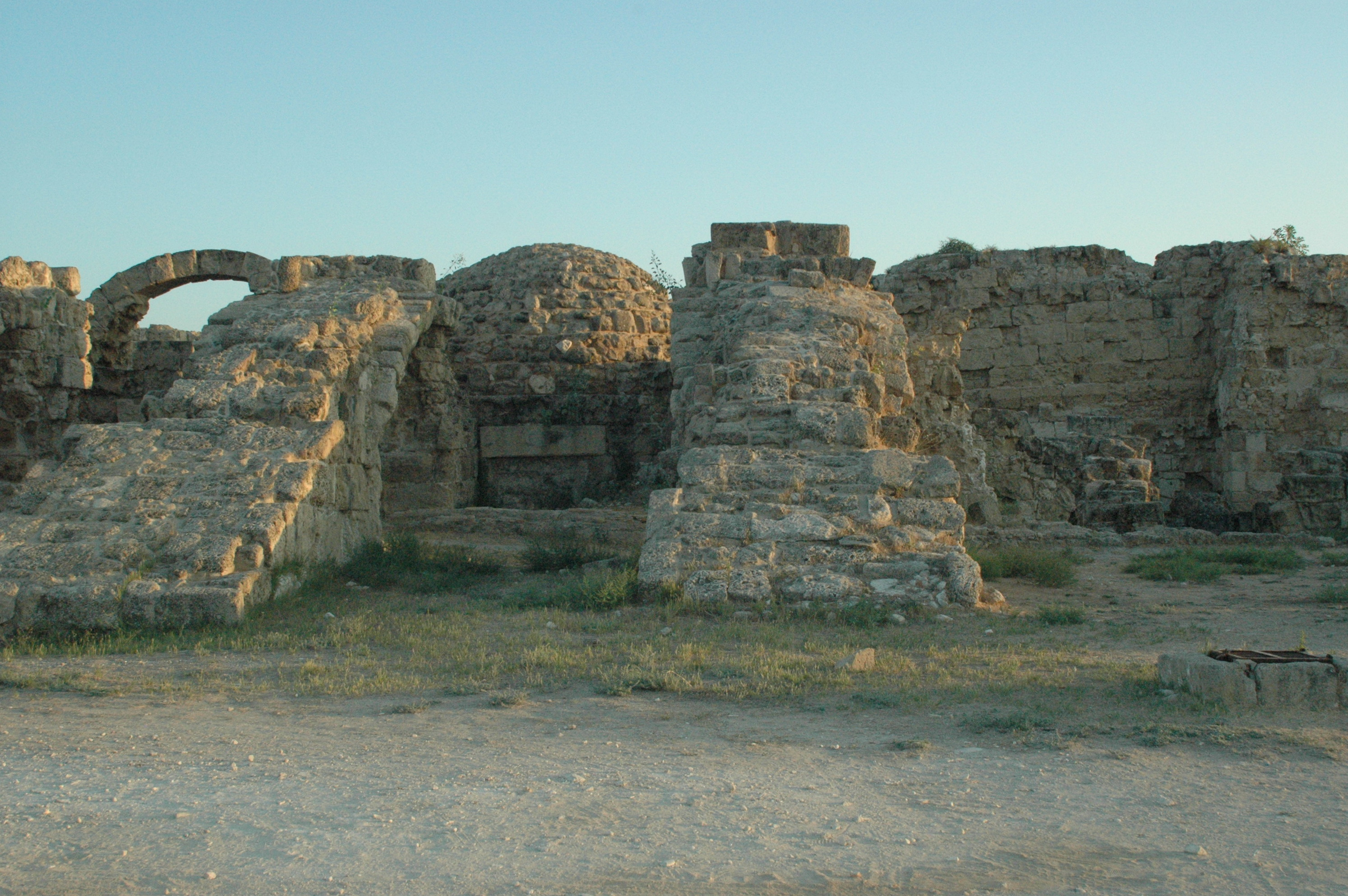 Salamis was an ancient city-state on the east coast of Cyprus, at the mouth of the river Pedieos, 6 km north of modern Famagusta, North Cyprus.